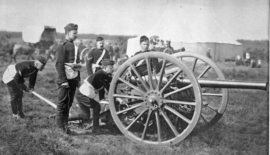 RFA gun crew with BL 15 pounder, apparently on manouevres. It may be differentiated from the 12 pounder 7 cwt by the 14-spoke wheels.